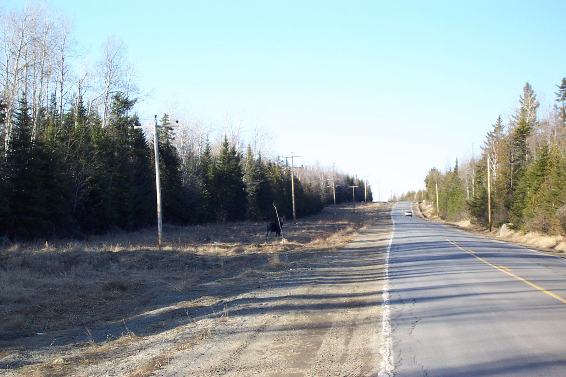 Maine State Route 16 facing eastbound with a moose in the background, somewhere between Rangeley and Stratton